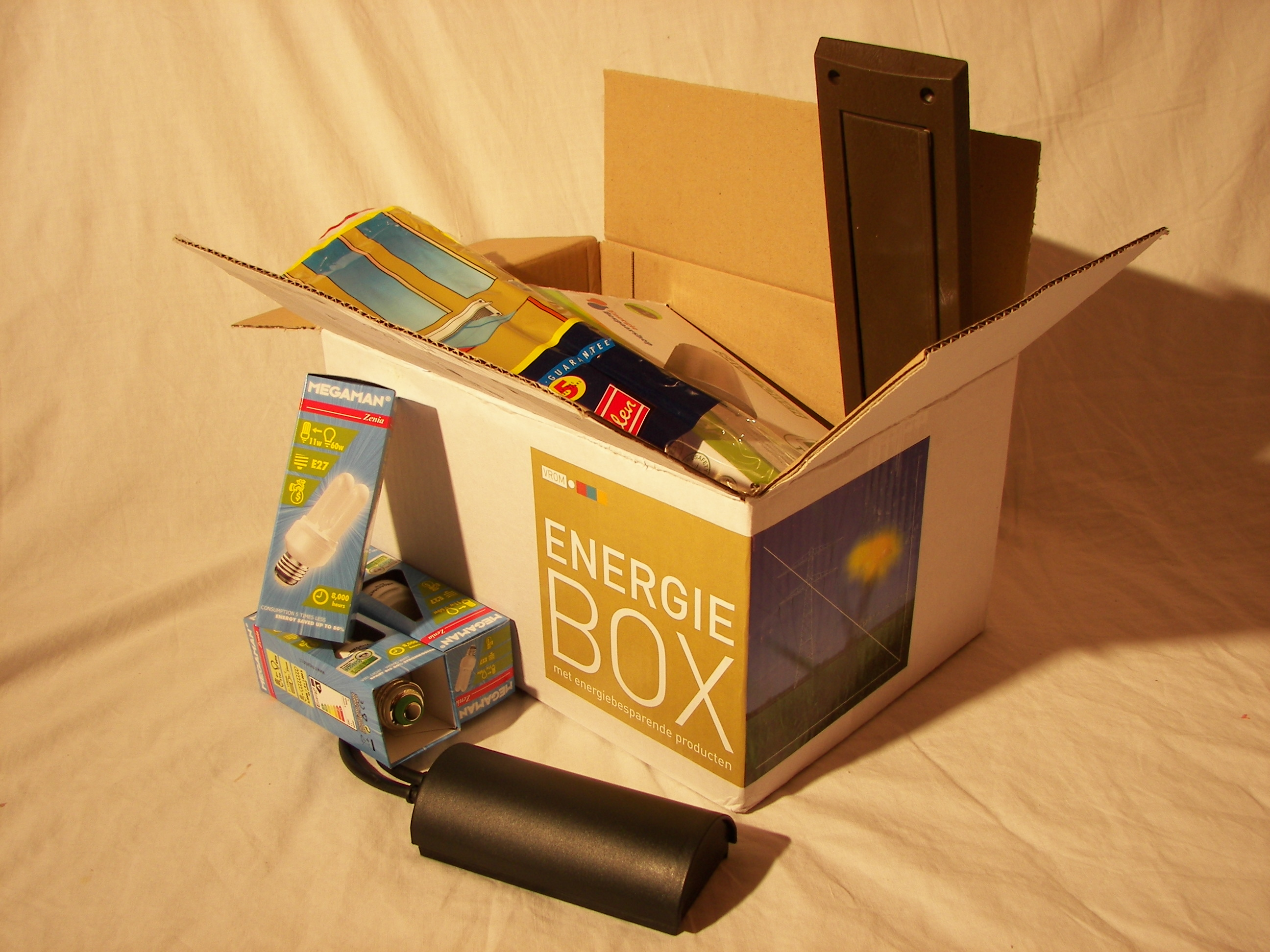 The 'energiebox' (energy box), a box with stuff to save energy, worth 100 euro, given away by the Dutch ministry of environment (VROM) in December 2006. This was an experiment amongst 10,000 households in Woerden. The households could compose their own box by ordering from a list. Visible in this picture are a standby killer for TV, three energy saving lightbulbs and (sticking out of the box) an letterbox flap for indoors to prevent draught.